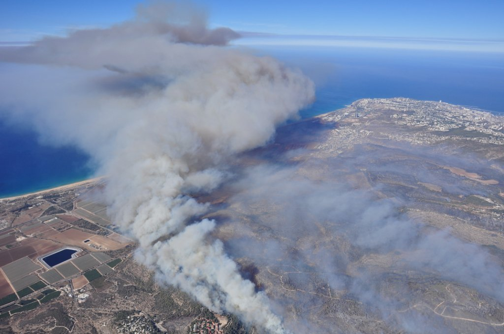 Mount Carmel forest fire 2010